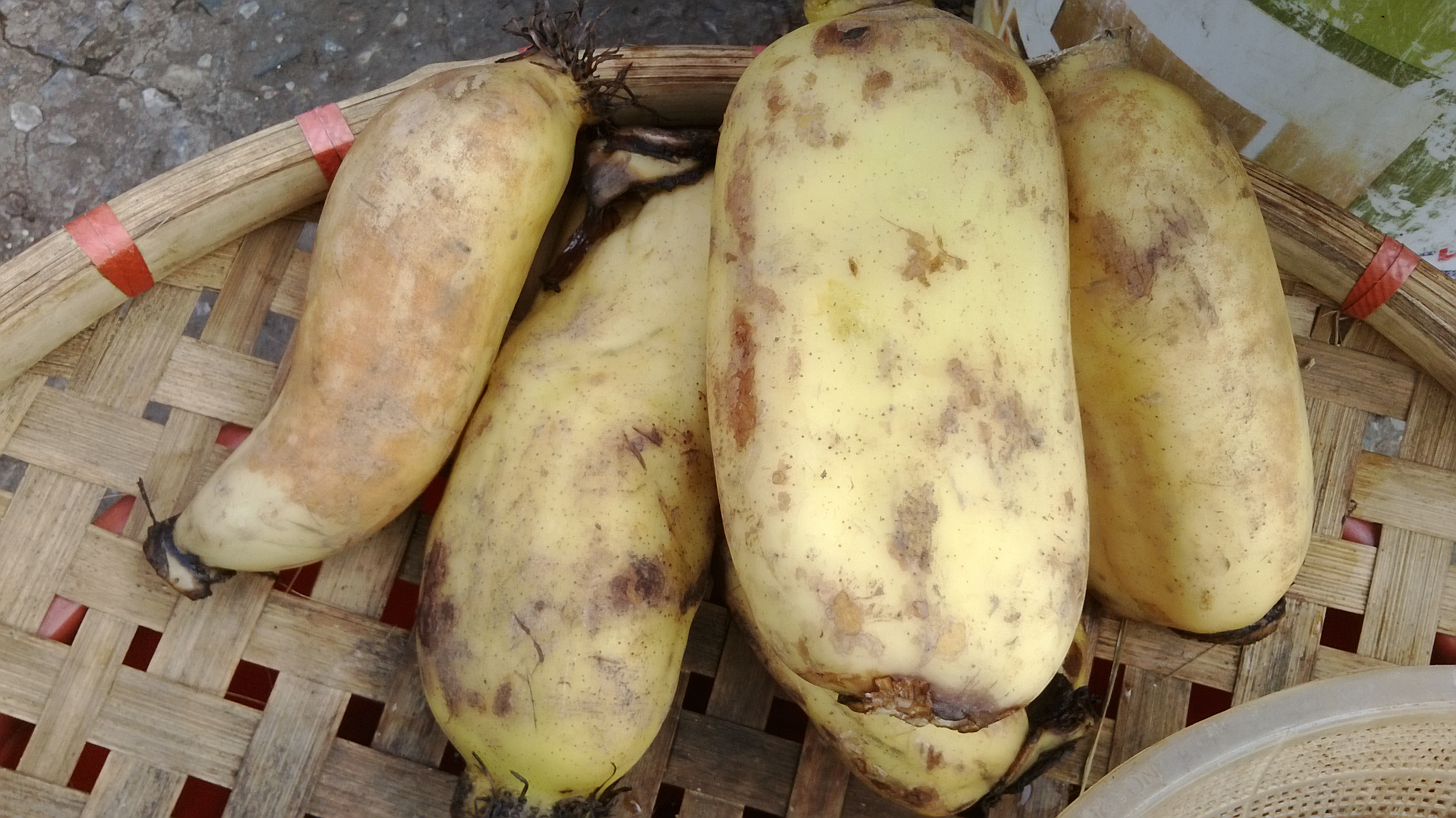 Lotus root in Vietnam